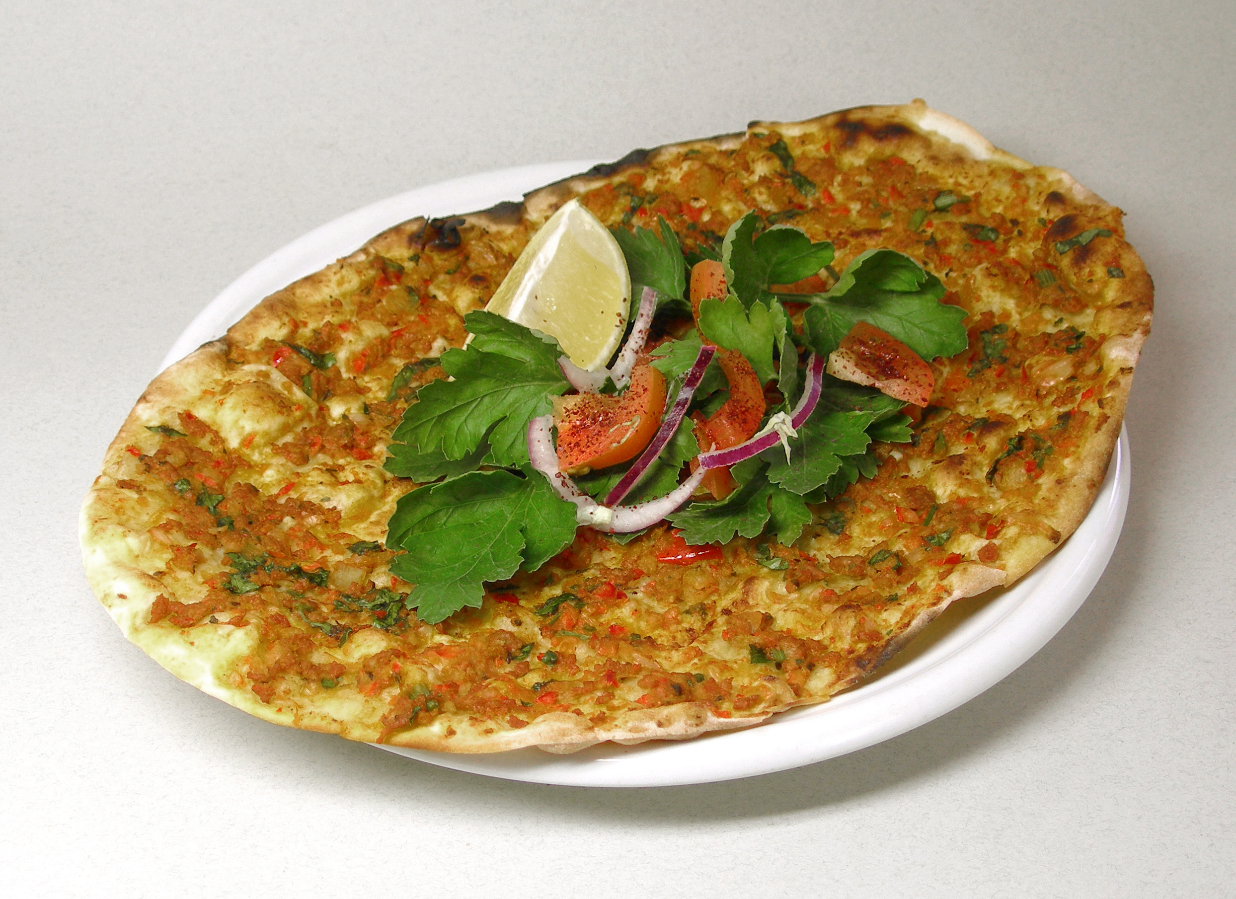 Lahmacun, a turkish bread similar to pizza (this picture also used at Lahmacun pdf)